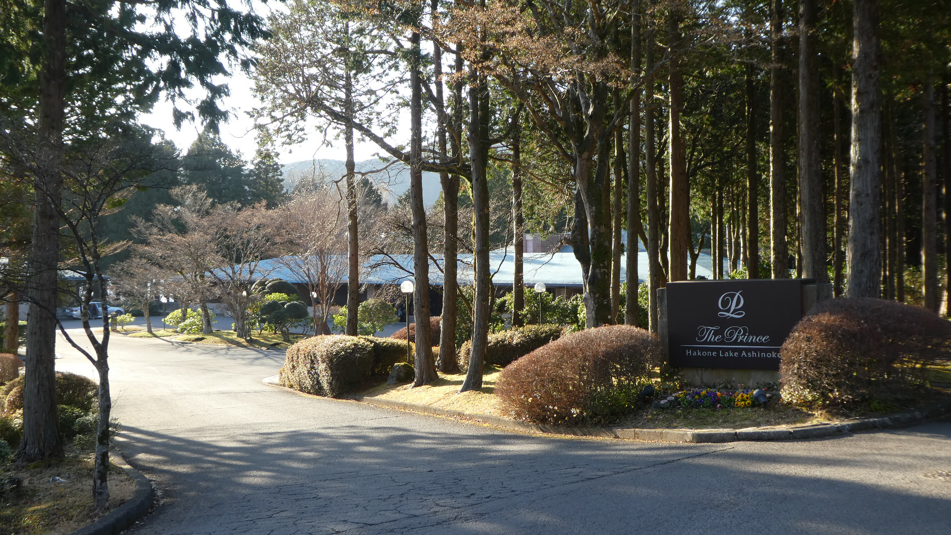 The Prince Hakone Lake Ashinoko Entrance